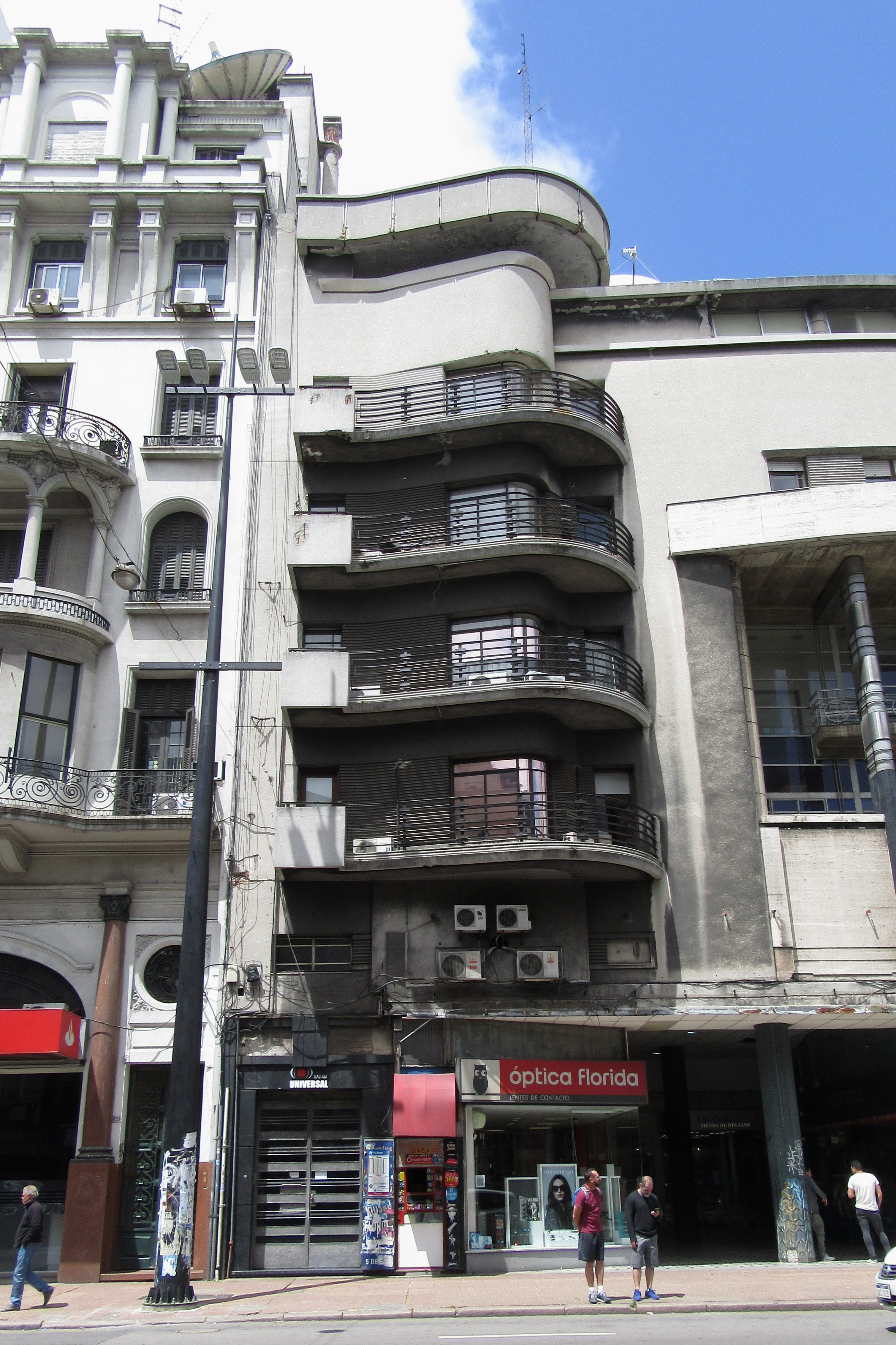 Montevideo